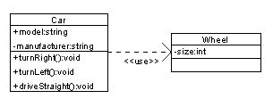 Class diagram showing dependency between "Car" class and "Wheel" class (Even more clear example would be "Car Dependency on gas", because Car does aggregate wheels)